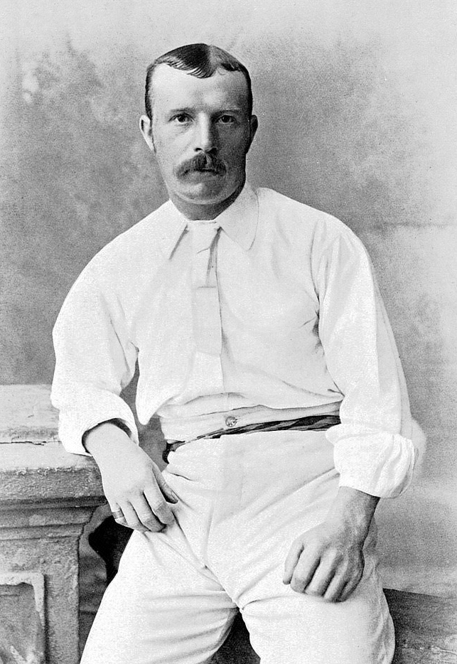 Sport, Cricket, Circa 1895, Robert Peel, Yorkshire (1882-1897) and England